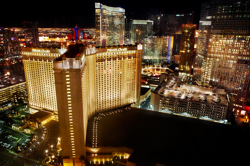 Exterior view of Monte Carlo Resort and Casino released by MGM Resorts International under Attribution-ShareAlike Creative Commons license specifically for use on Wikipedia